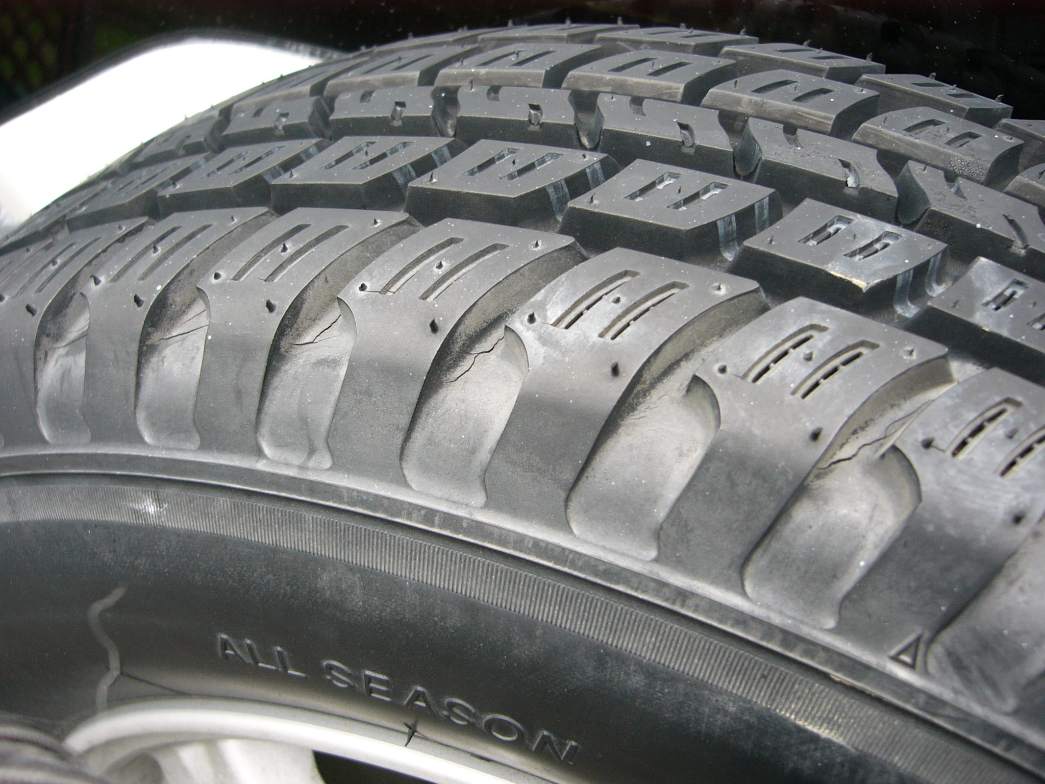 A case of "tire cord" and "tread surface" of all-season tires. "SuperDigger-V" all-season tires Yokohama Rubber Co., Ltd..